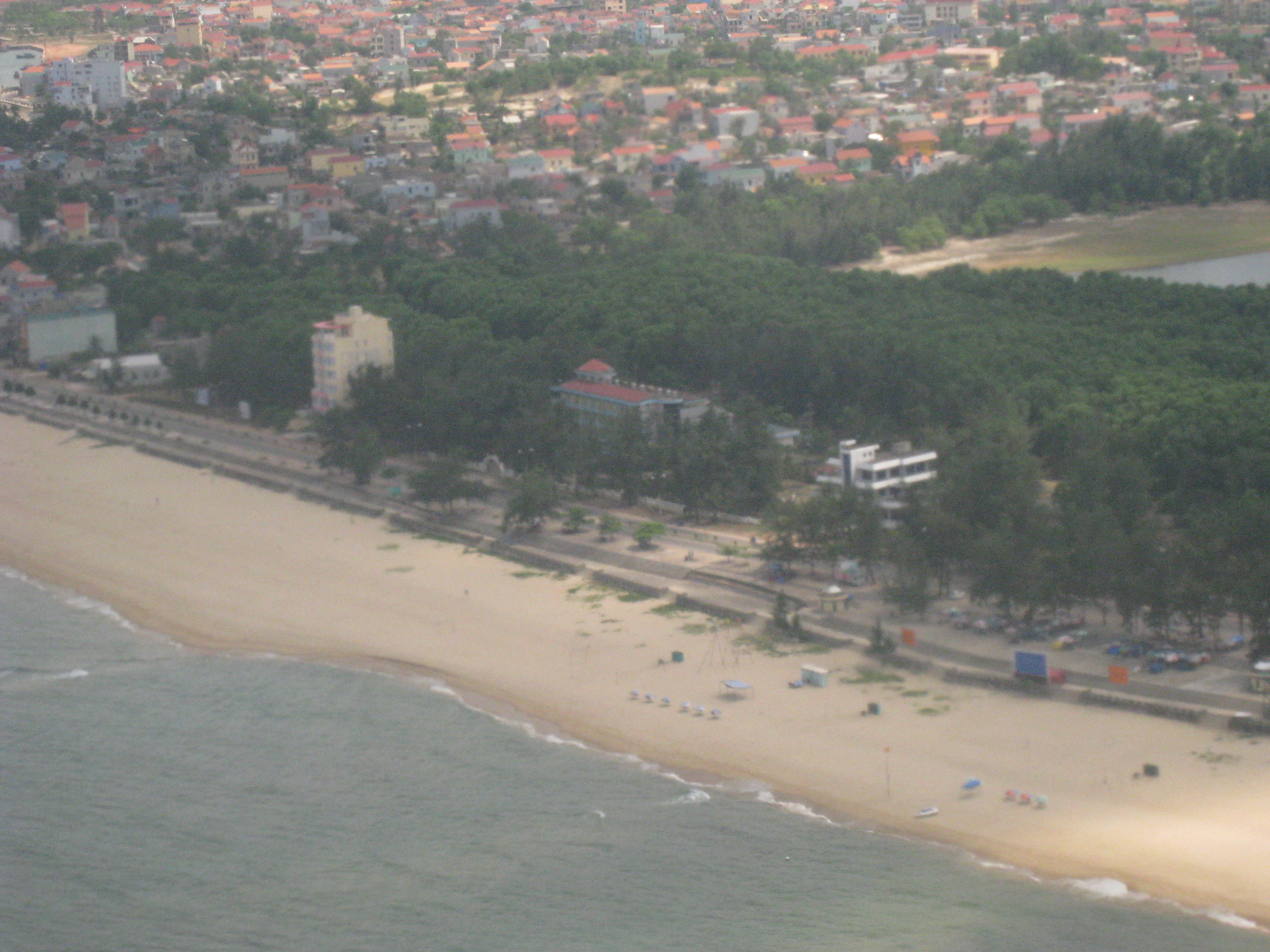 Dong Hoi, Quang Binh, Vietnam